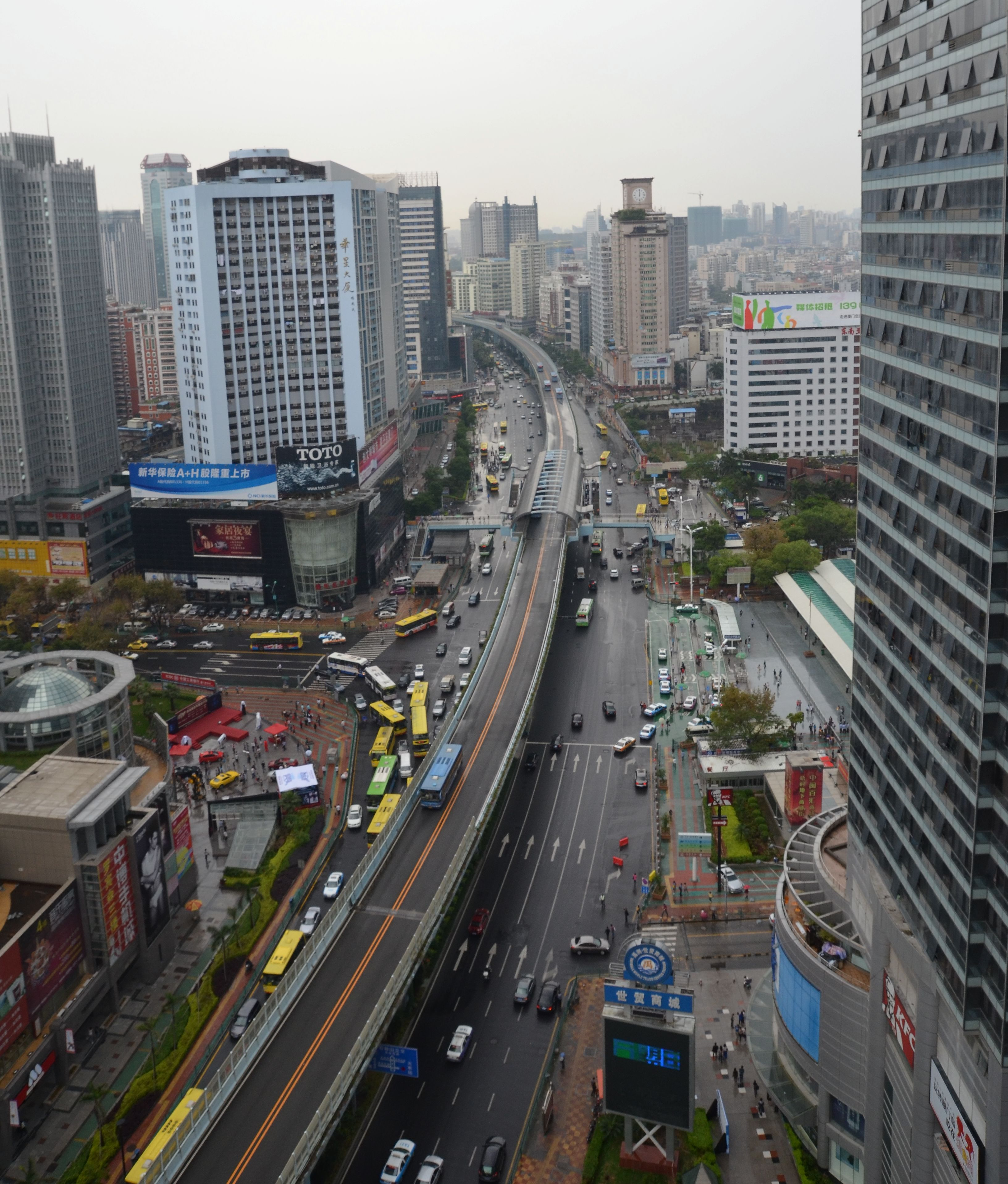 Xiamen BRT line at Xiamen Railway station